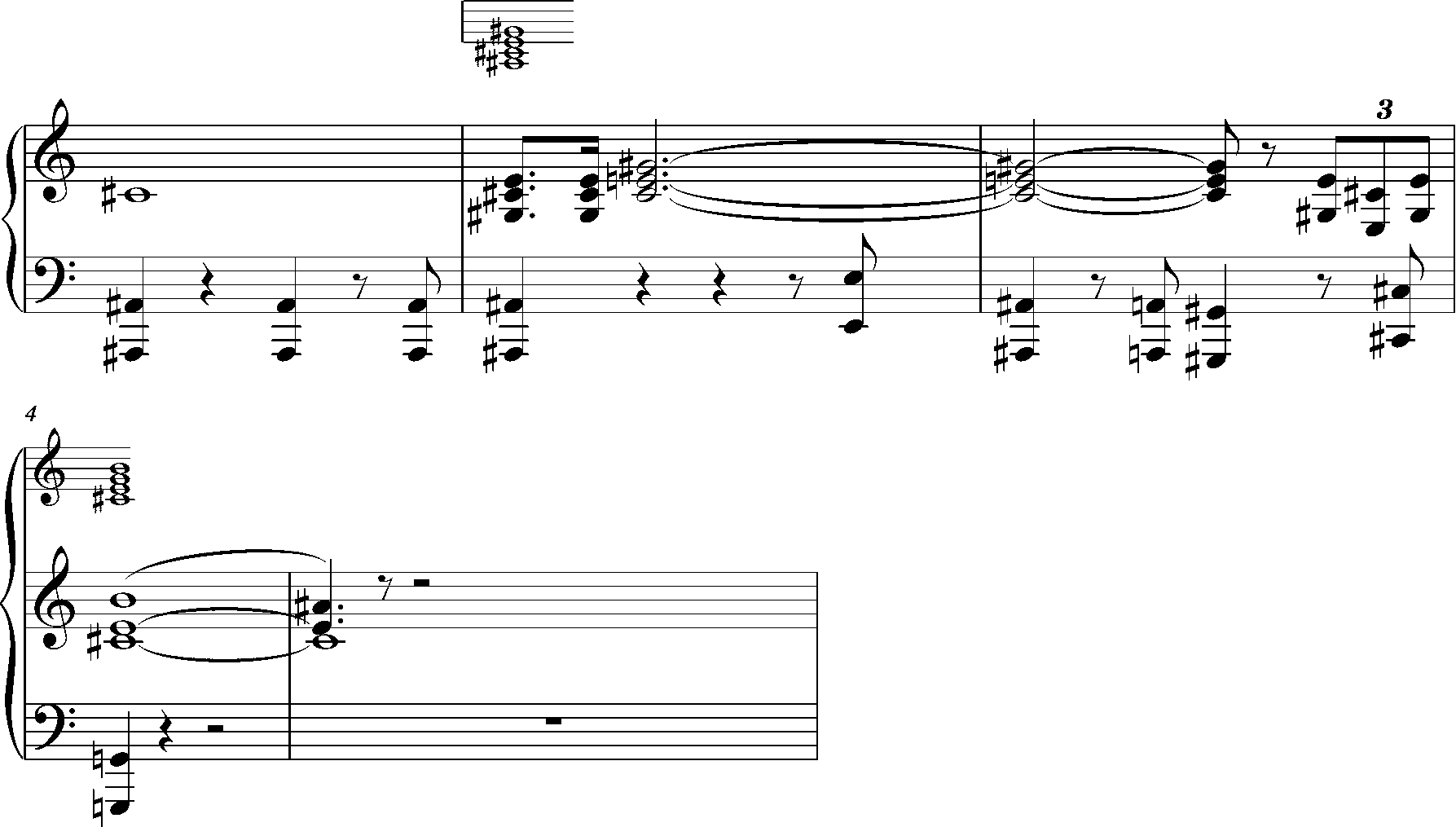 Wagner from Parsifal Act III revised